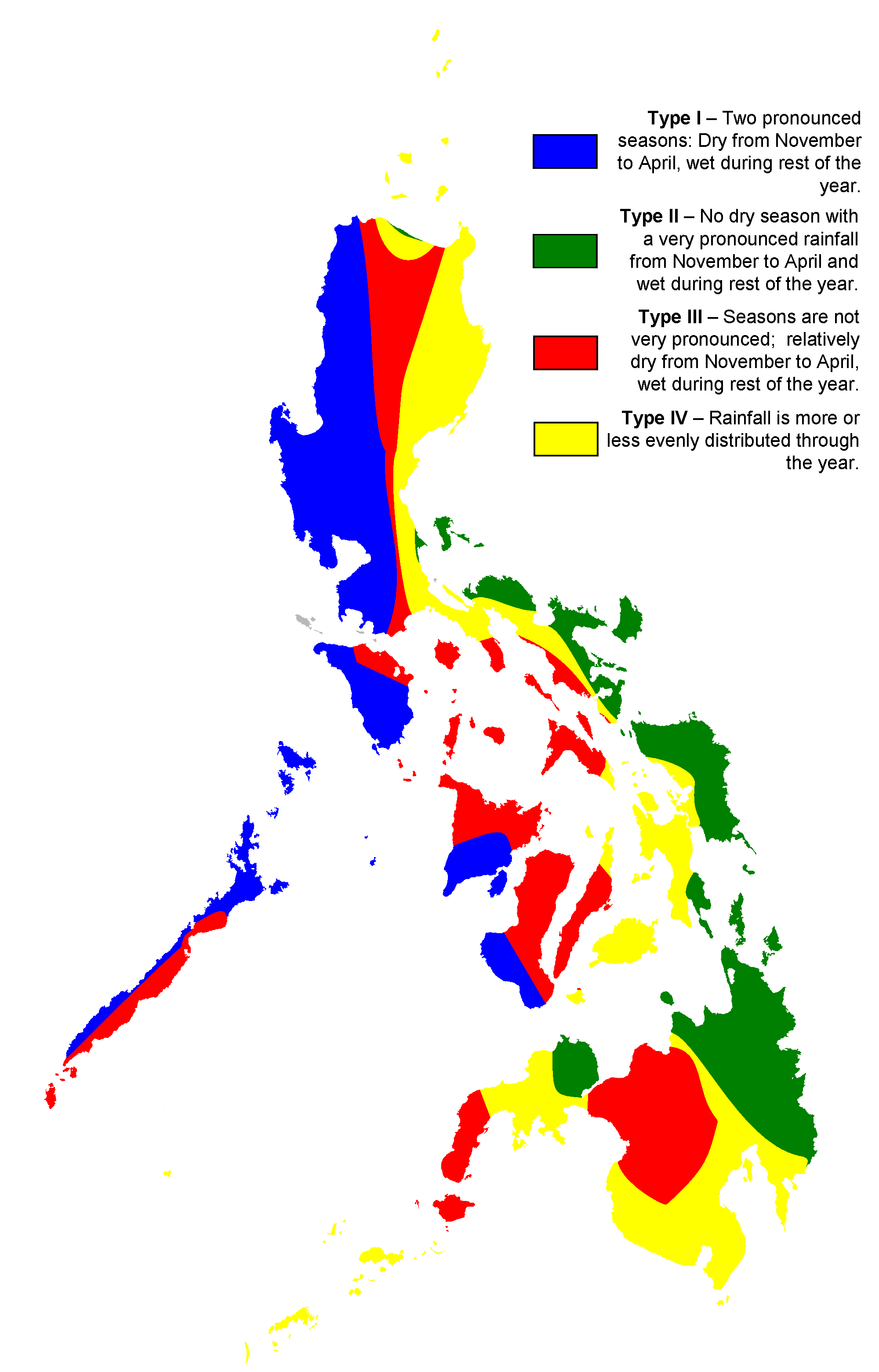 Map showing the ditribution of rainfall in the Philippines